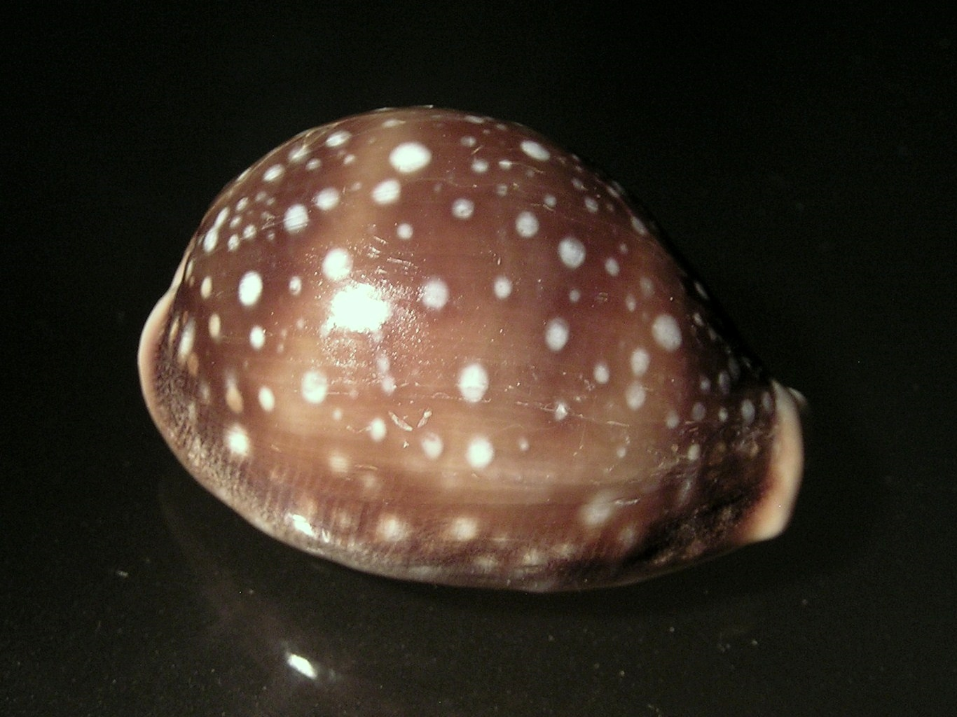 Lyncina vitellus (Linnaeus, 1758) , a cowry from the family Cypraeidae; Vietnam